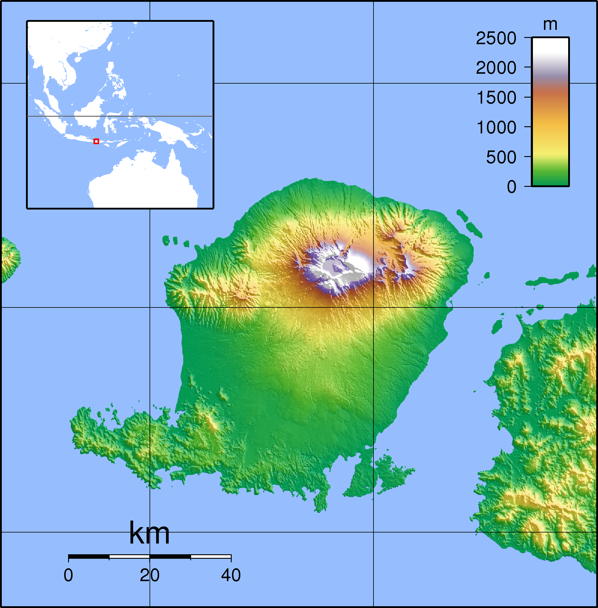 Topographic map of Lombok, Indonesia. Created with GMT from SRTM data